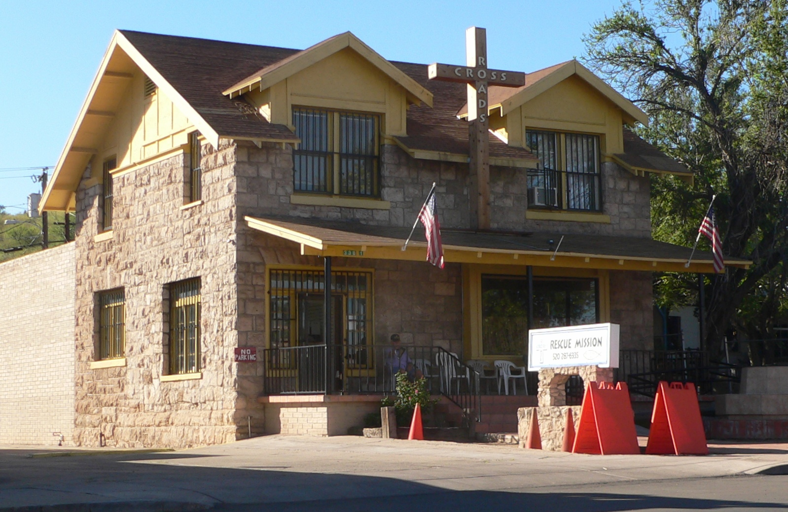 House at 338 Morley Avenue in Nogales, Arizona.